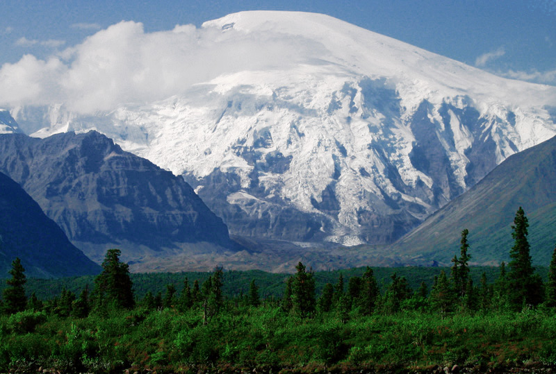 Erin McKittrick, Ground Truth Trekking, own work, Mount Sanford (Alaska)